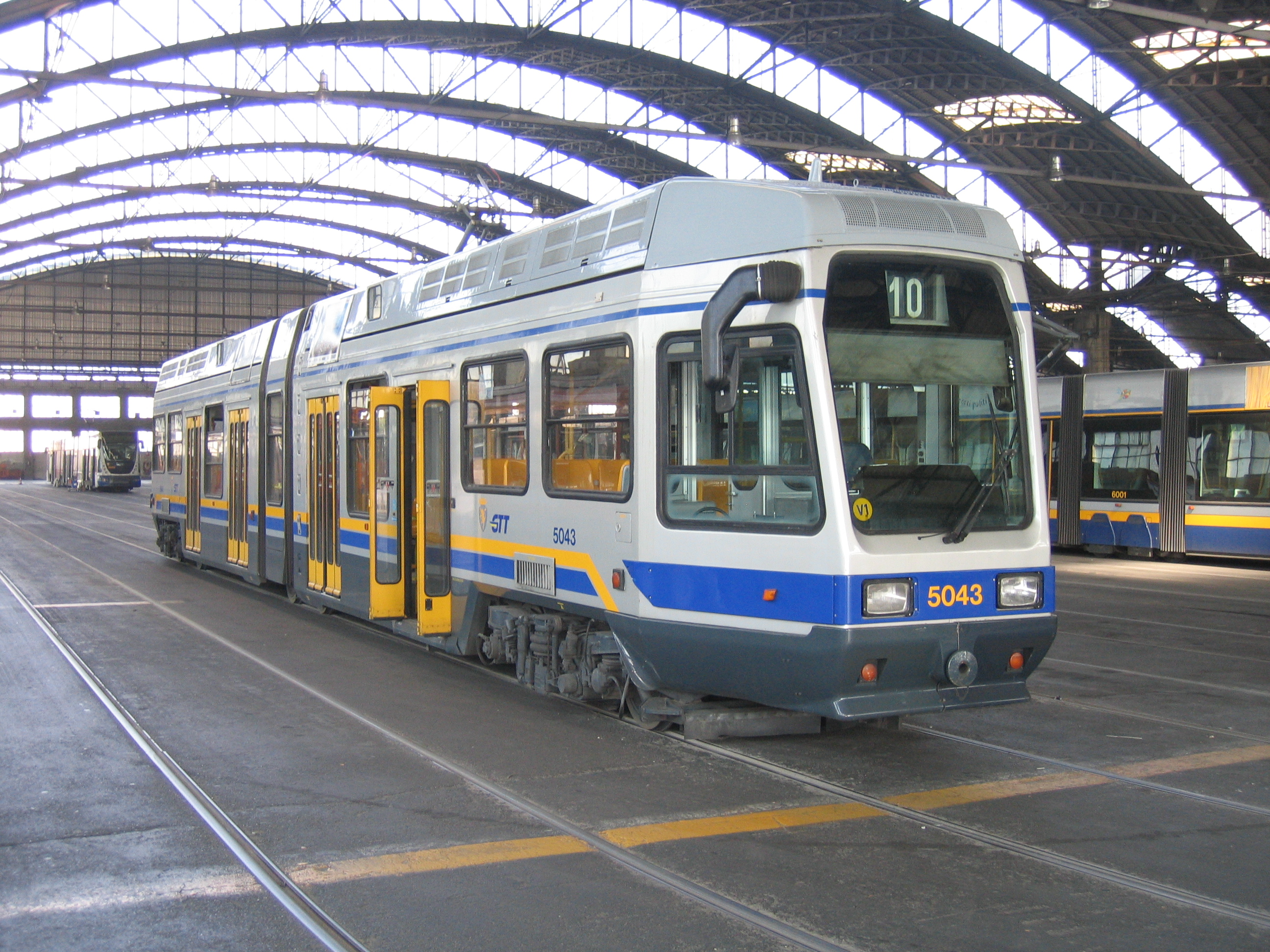 GTT Torino tram vehicle 5043 in Depot